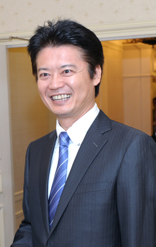 Kōichirō Gemba, Minister for Foreign Affairs, shaked hands with Hillary Rodham Clinton, Secretary of State, in New York City, New York State on September 19, 2011.